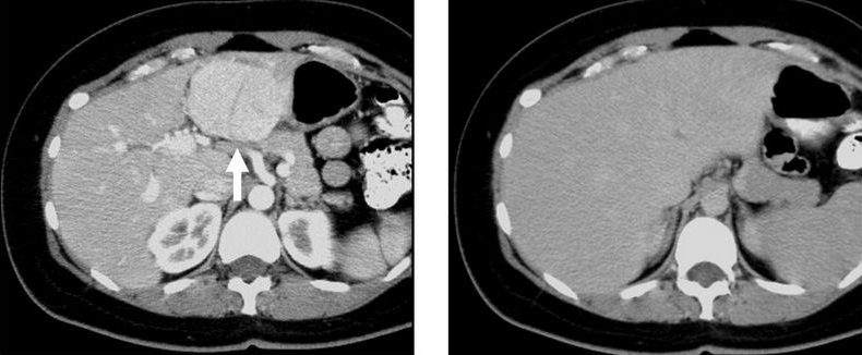 Late arterial and portal venous phase CT of focal nodular hyperplasia. For context, see Computed tomography of the abdomen and pelvis.